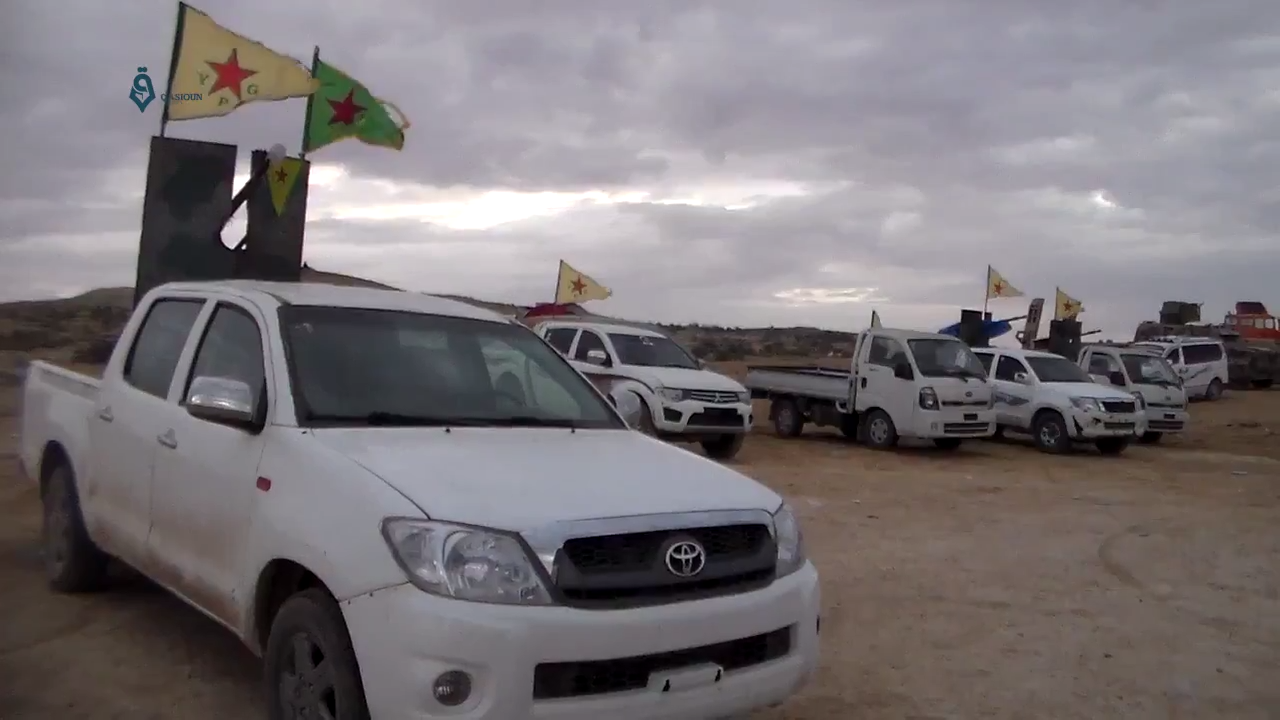 Vehicles of the People's Protection Units (YPG) and the Women's Protection Units (YPJ) being parked near al-Thawrah in northern Syria.